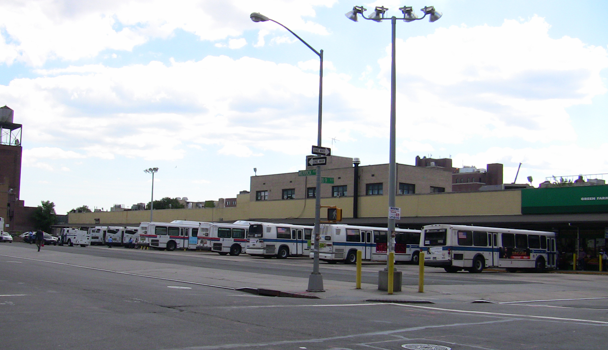 165th Street Terminal in Jamaica, Queens, New York. View from Merrick Bl & 89th Av.